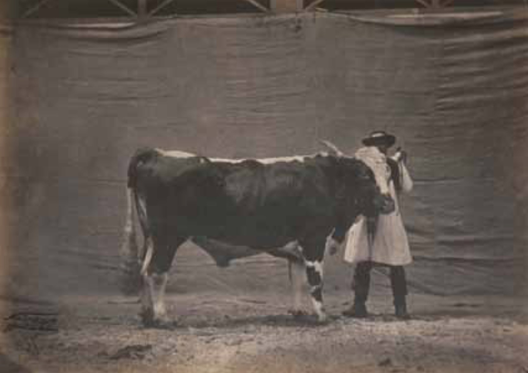 Adrien Tournachon, dit Nadar Jeune (1825-1903) Concours agricole, 1856. Bœuf de Gallicie-Suisse. Agé de 7 ans, élevé par Monsieur le Chevalier Théophile d’Ostaszewski à Wzdów (Gallicie). Épreuve sur papier salé vernis contrecollée sur carton. Signature « Nadar Jeune - Bould des Italiens » en bas à gauche. Légende imprimée sur le montage. 19,5 x 27,3 cm